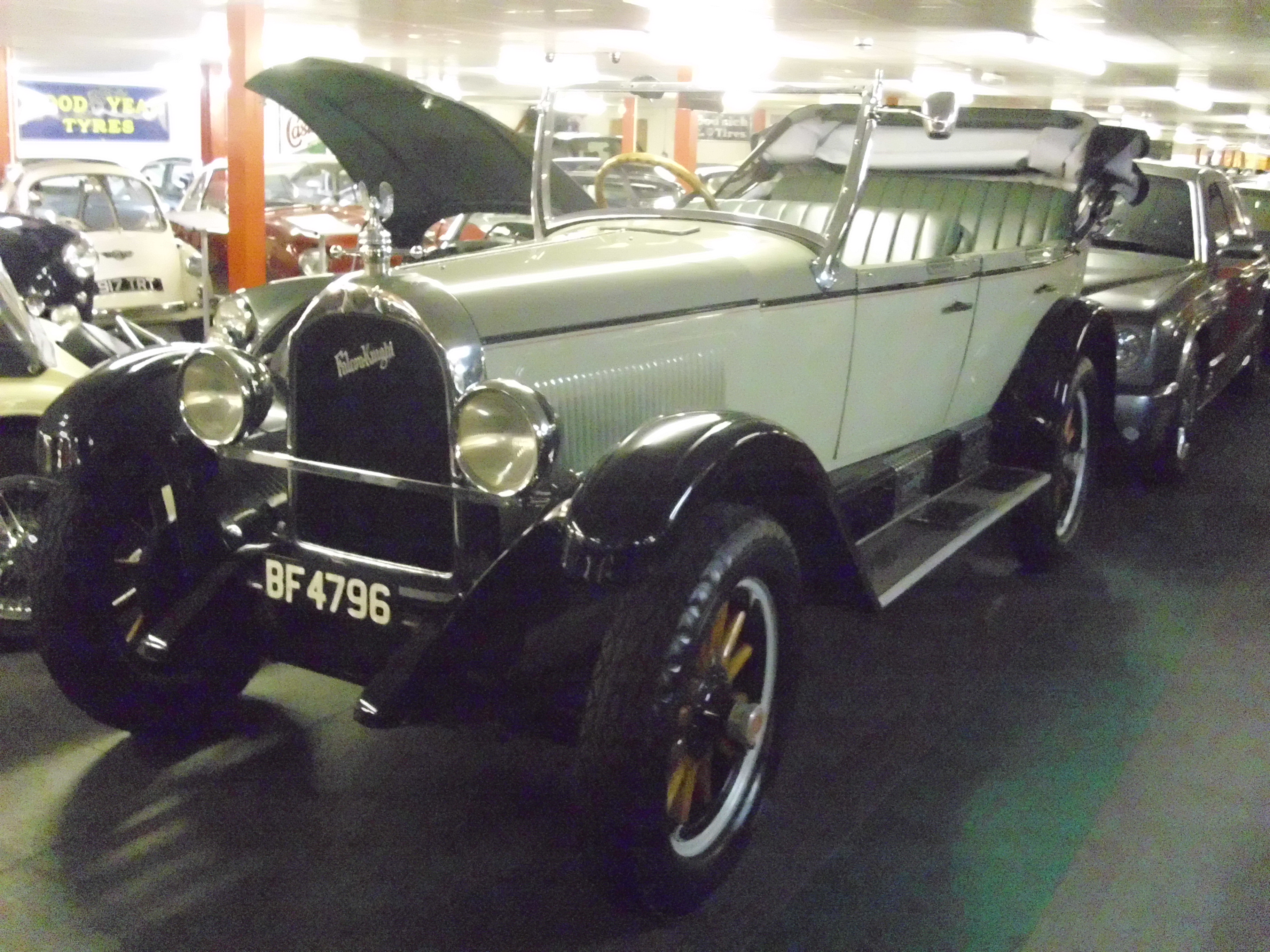 Falcon-Knight Model 10 1927